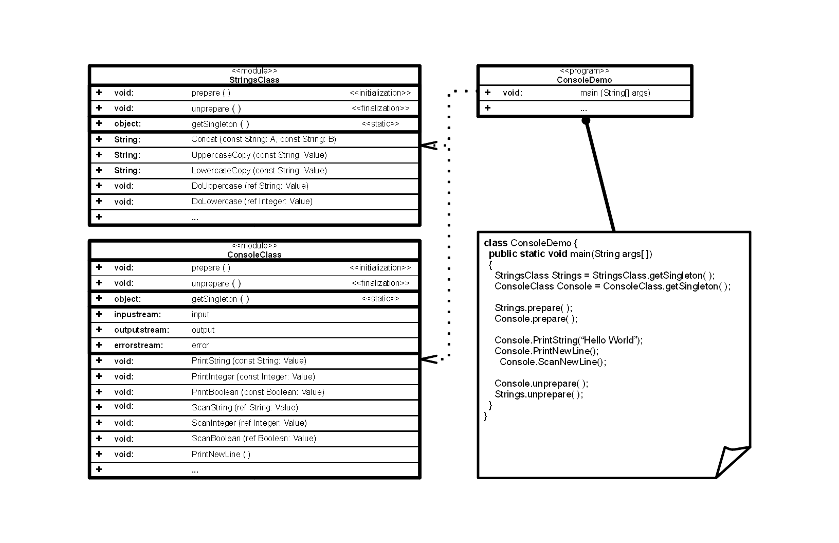 U.M.L. Class & Object Diagram for an Example of the Module Software Design Pattern